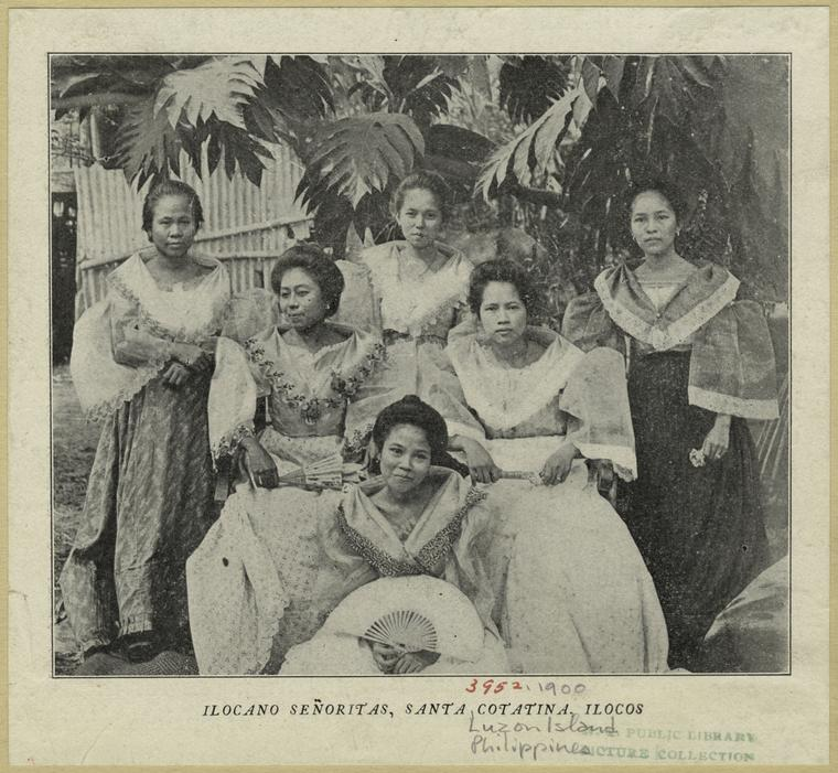 Ilocana senorita from Santa Catalina, Ilocos, Philippine islands.